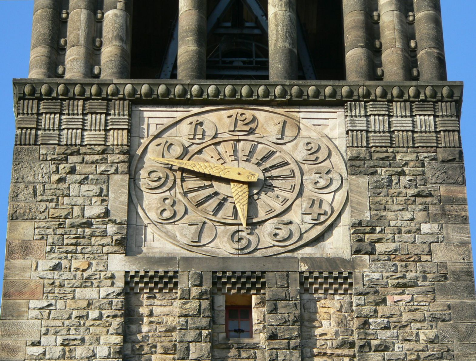 Clock on the church Lutherkirche in Karlsruhe, Germany